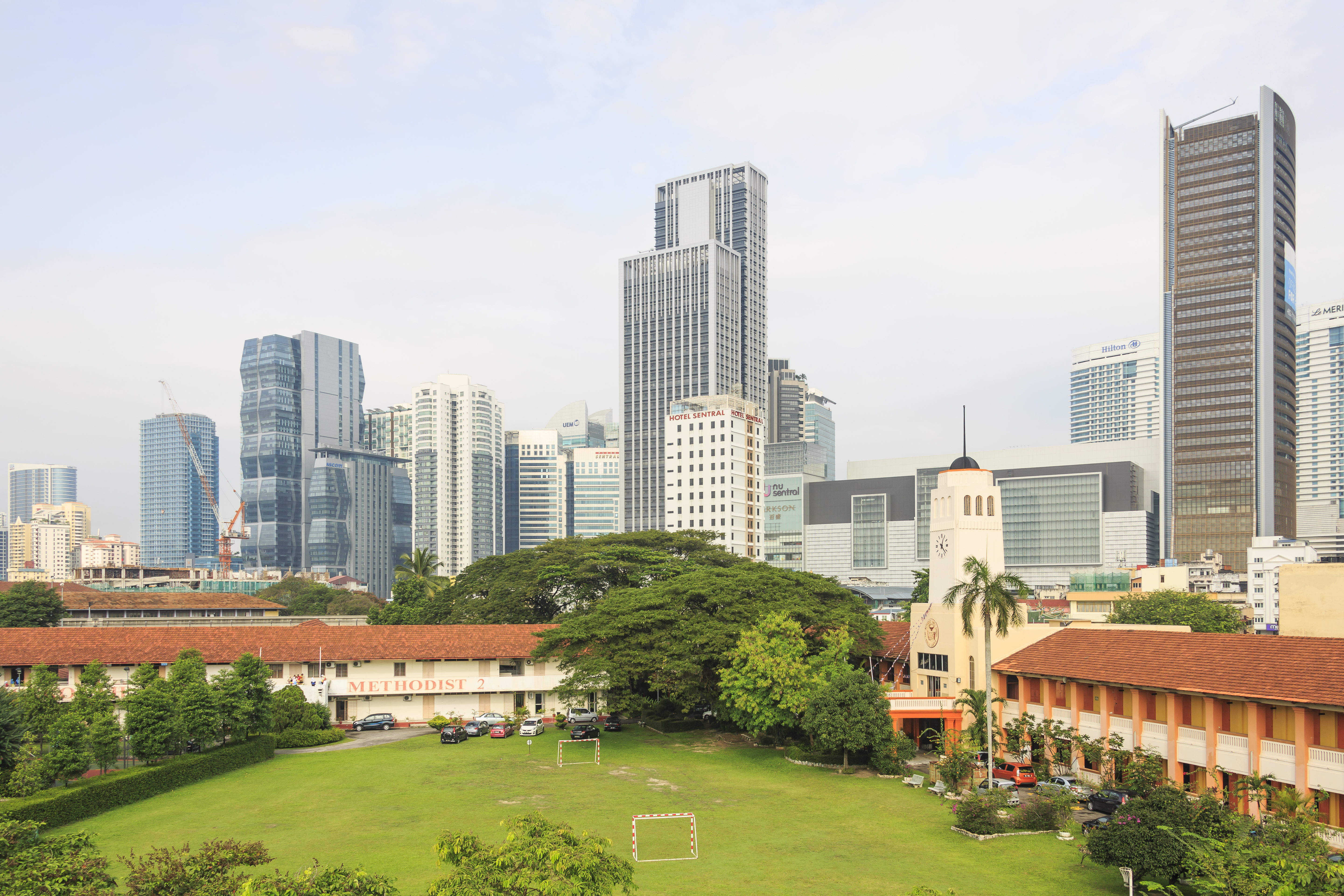 Kuala Lumpur, Malaysia: Methodist 1 & 2 Brickfields Girl Primary School in front of the skyline of "Kuala Lumpur Sentral"